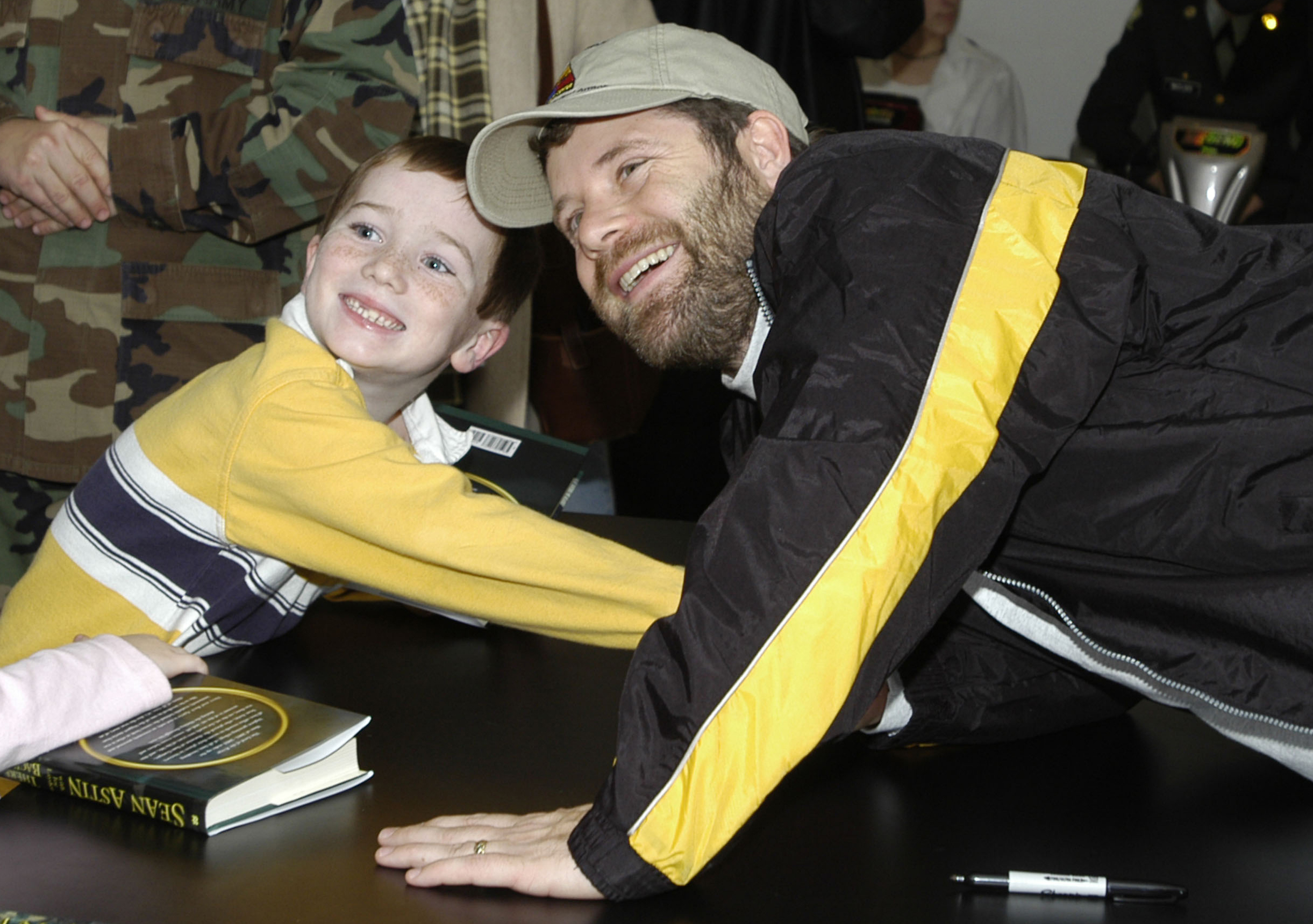 American actor Sean Astin visiting Fort Knox, Ky